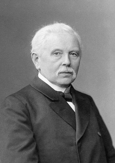 Friedrich Wilhelm Barkhausen (1831-1903), german lawyer und theologian.